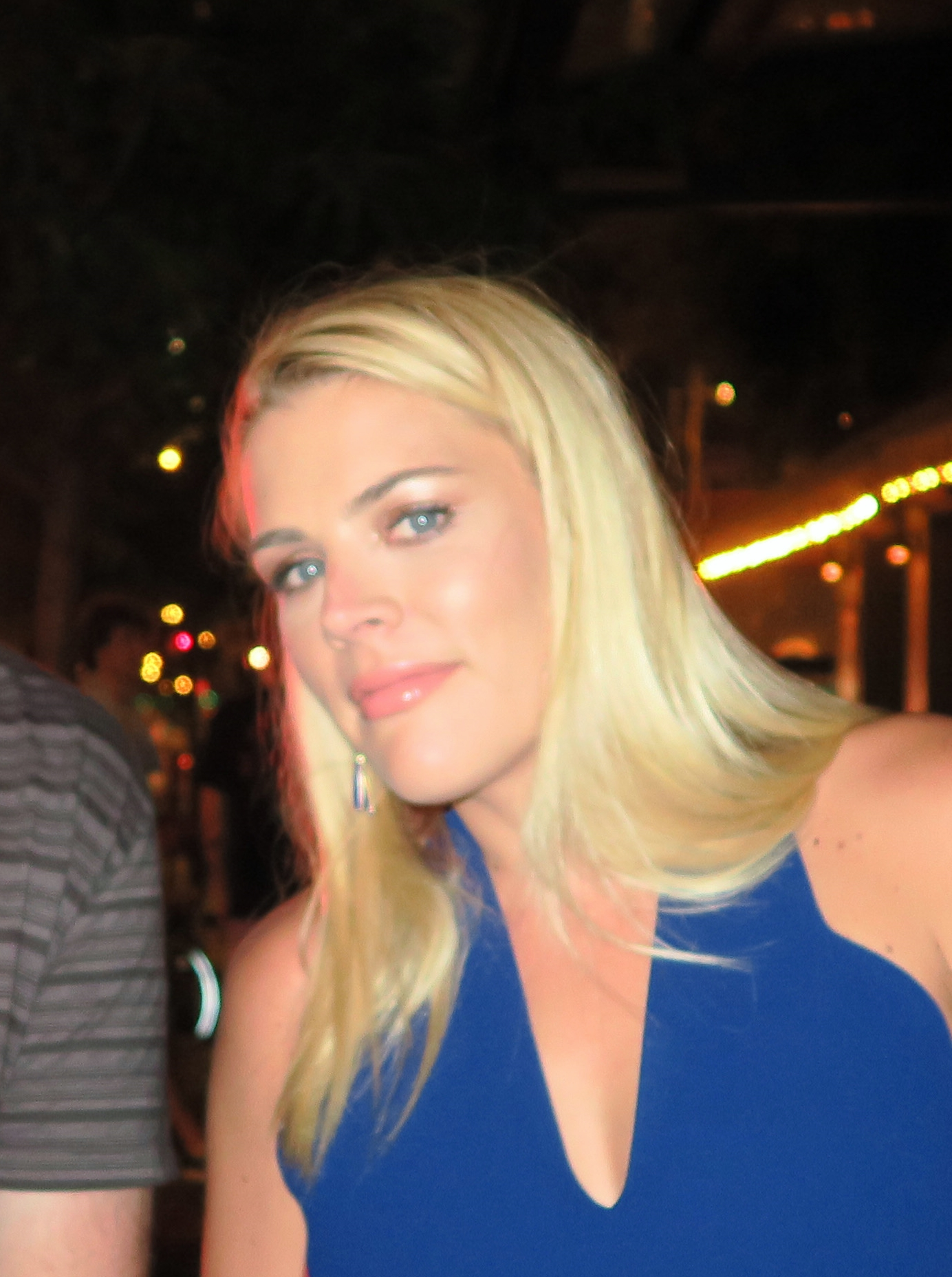 Star of Freaks and Geeks, Dawson's Creek, Cougar Town, and Vice Principals. NYC July 2016